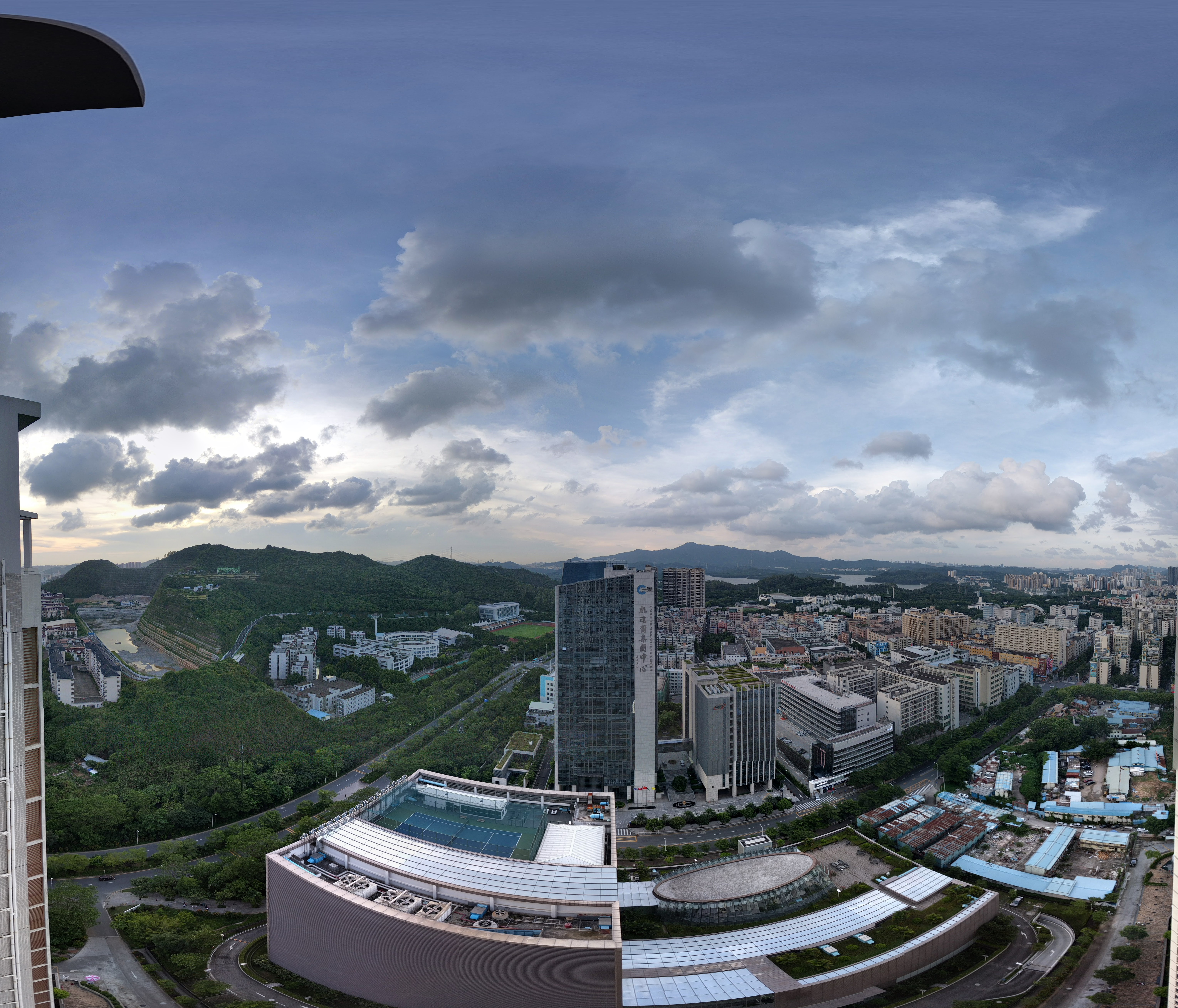 PANO of the XiLi District